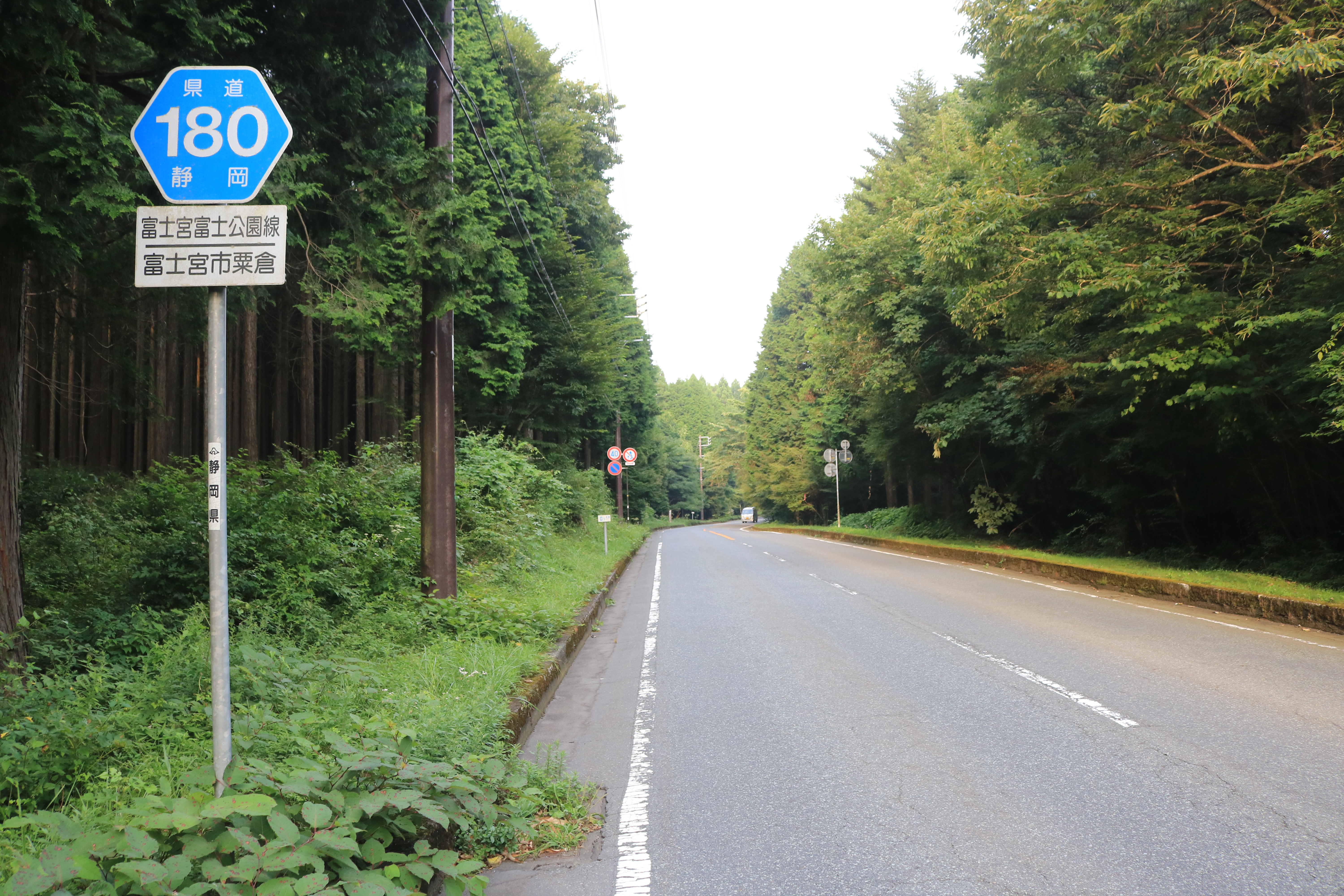 Shizuoka Prefectural Road Route 180 in Awakura, Fujinomiya, Shizuoka prefecture, Japan.